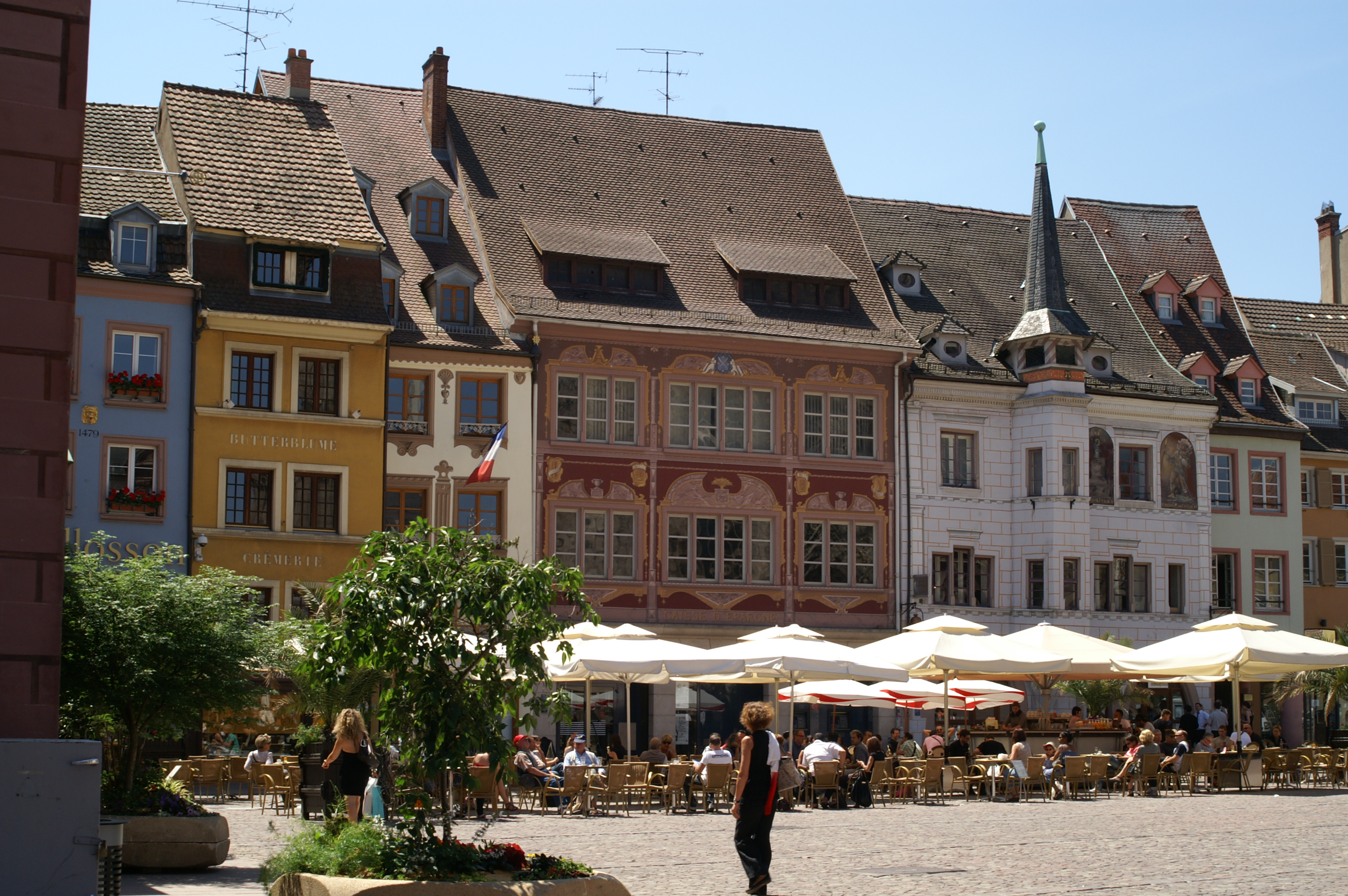 Mulhouse houses